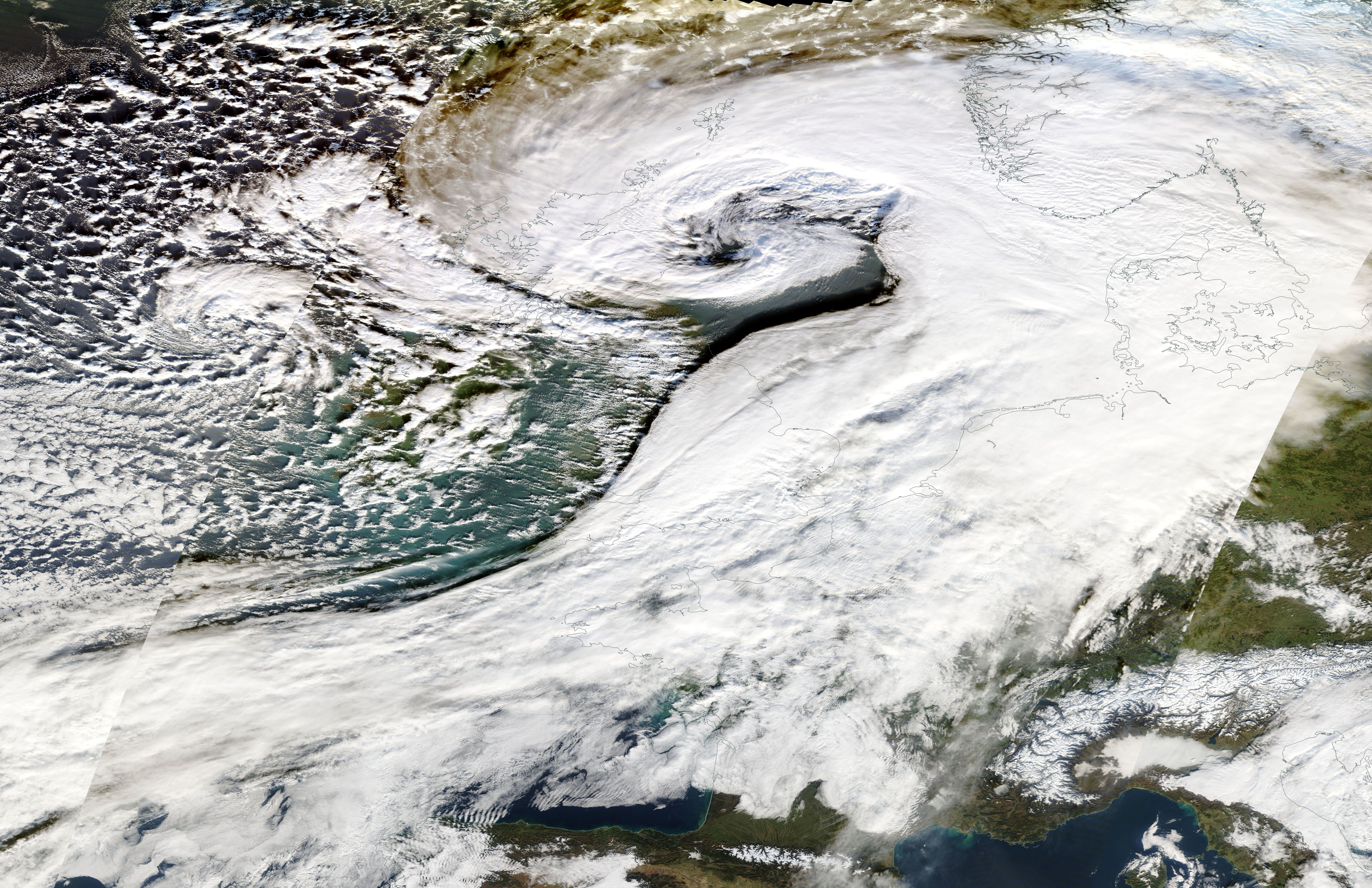 Cyclone Ulli (also referred to as Cyclone Emil in Norway) in the North Sea off the eastern coast of Scotland on 3 January 2012.